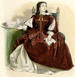 Portrait of 1841 by Charles Rochussen of Dutch actress Maria Francisca Bia (1809-1889) as the Duchess of Marlborough.